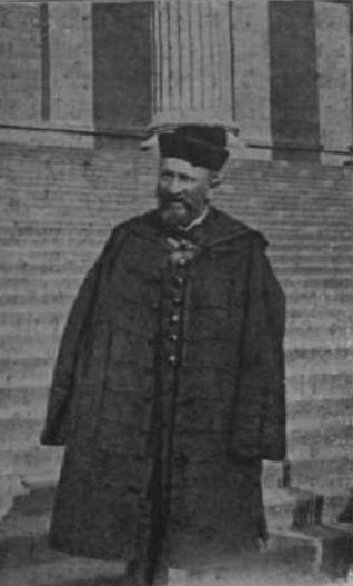 Béla Vay